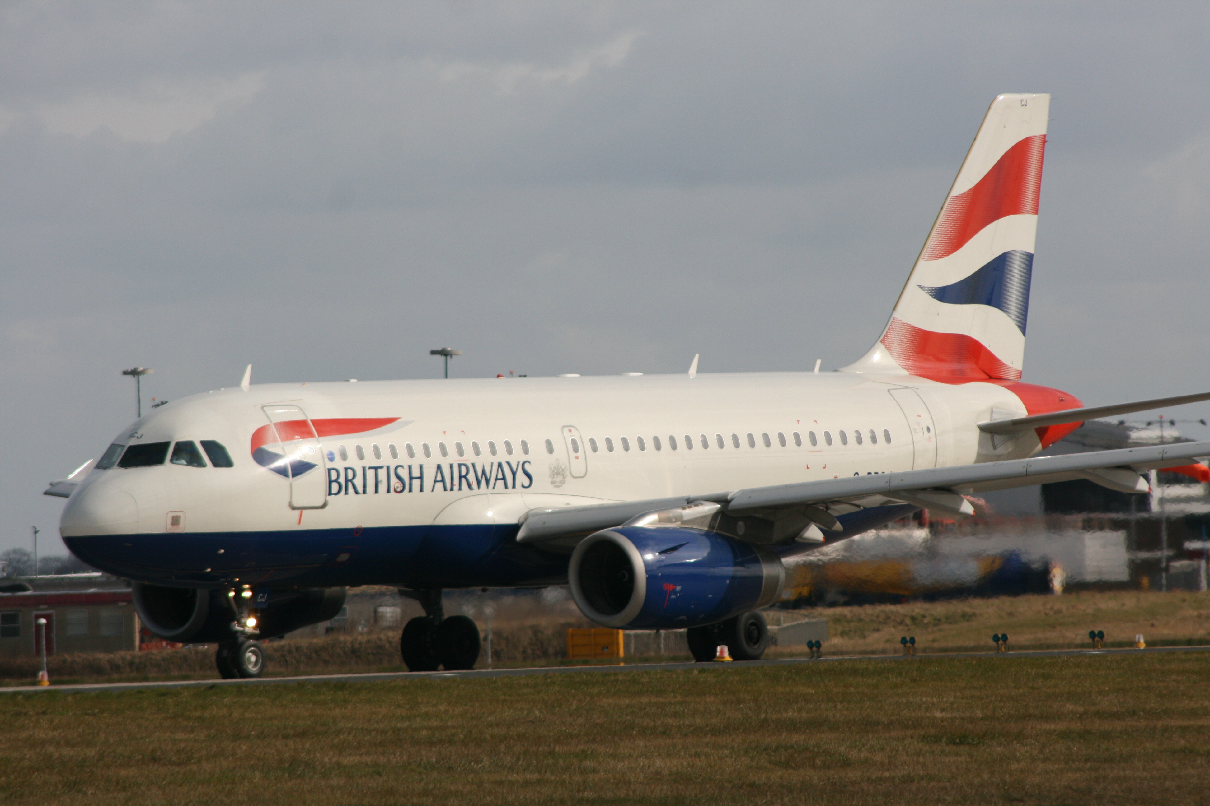 British Airways A319 G-DBCJ